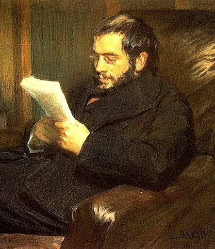 Portrait of Aleksander Benua (1870-1960) by Lev Bakst, 1898. Fragment.